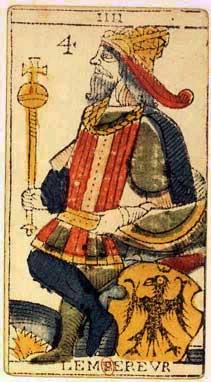 An original card from the tarot deck of Jean Dodal of Lyon, a classic Tarot of Marseilles deck which dates from 1701-1715.